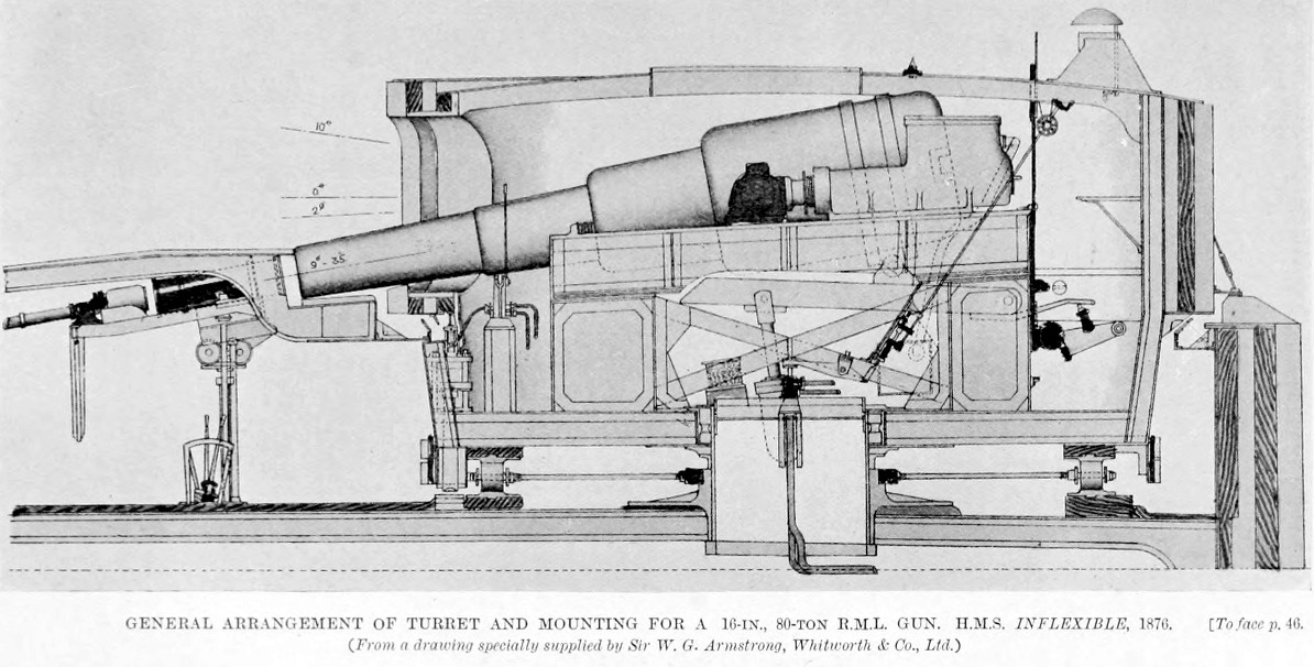 Diagram showing mounting of RML 16 inch gun in turret of British battleship HMS Inflexible. This shows the gun pointing downwards about to be reloaded.